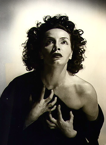 alejandra boero